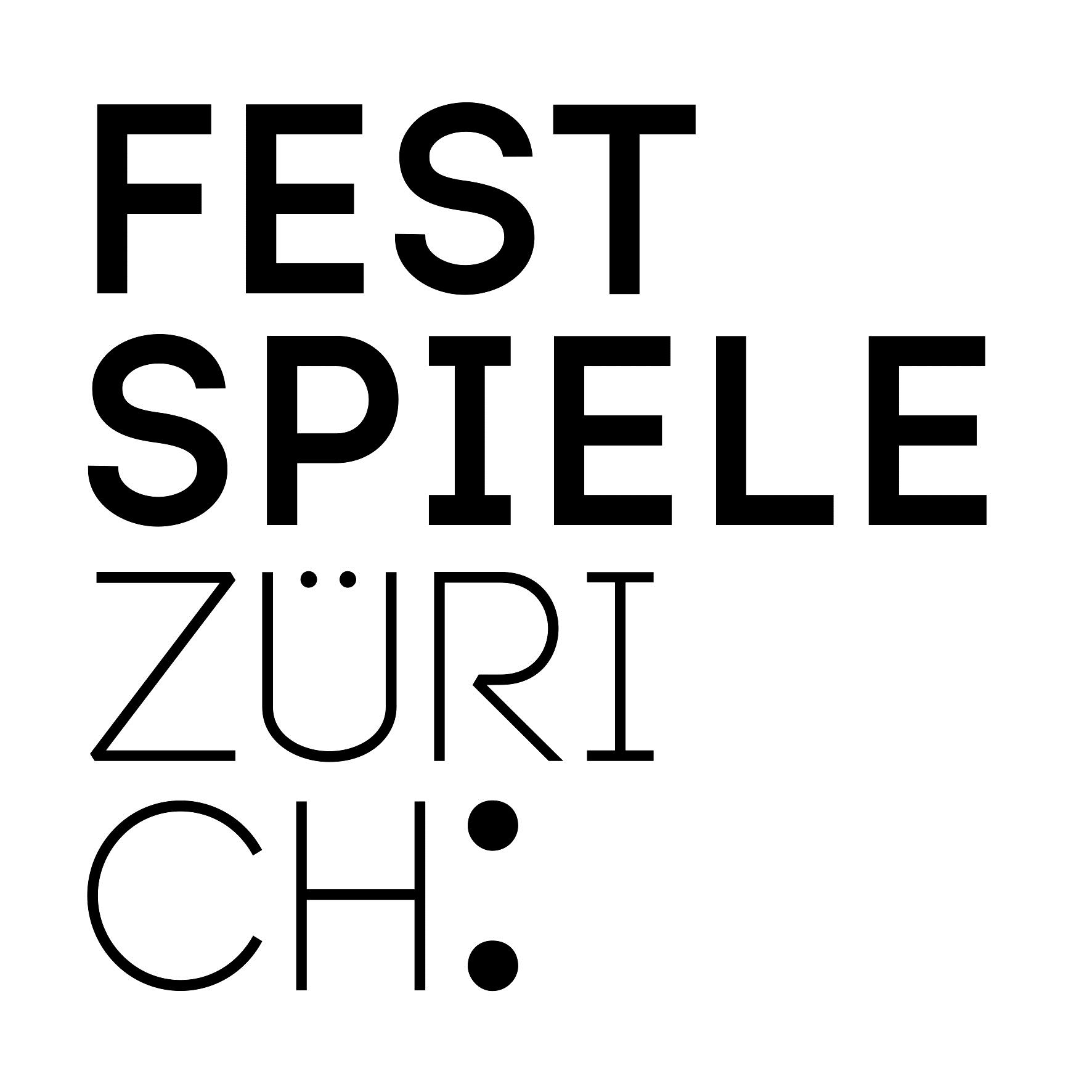 logo designed by Studio Geissbühler